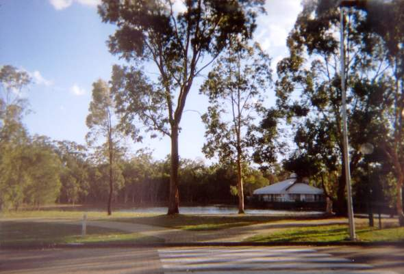 The grounds of the Brisbane Entertainment Centre ( this photograph was taken by Figaro )